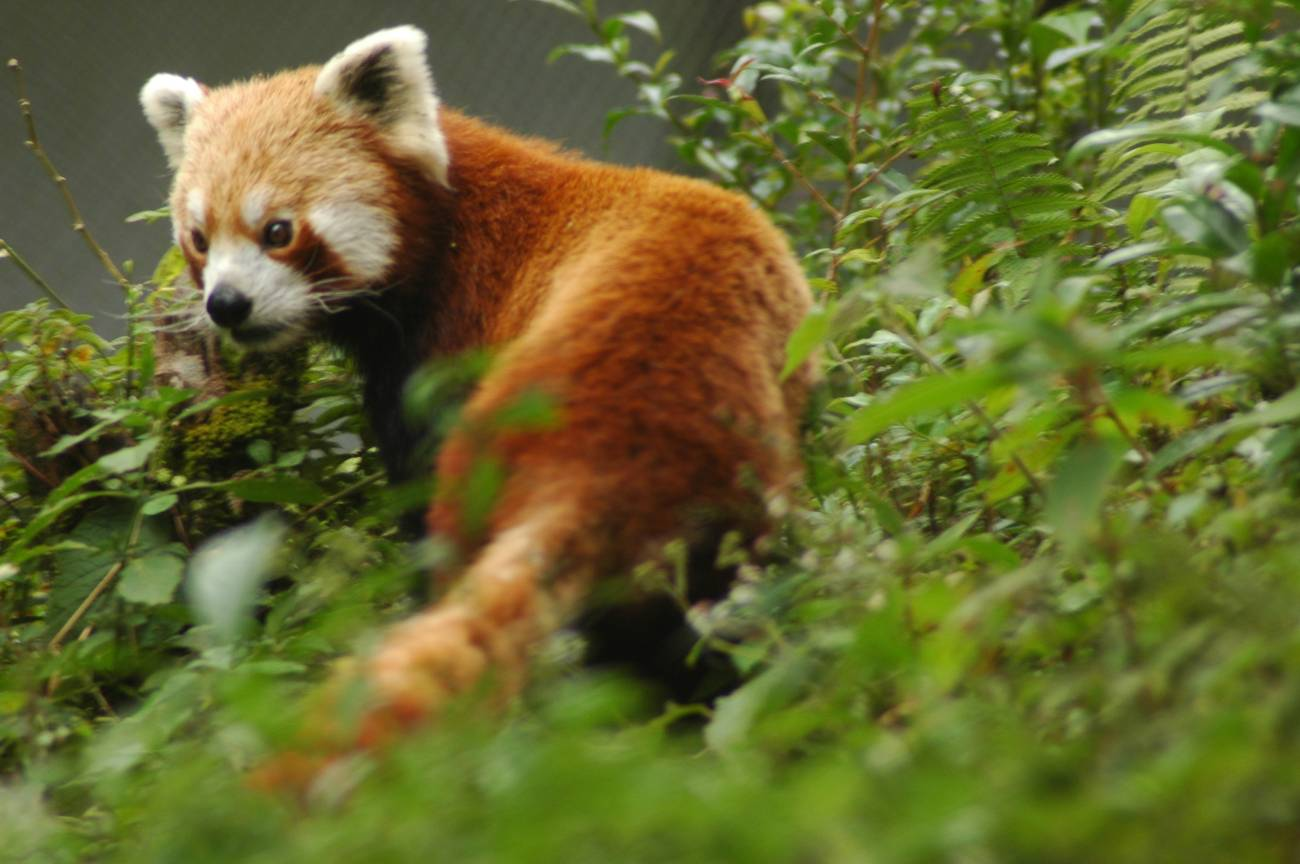 Red panda is the state animal of Sikkim, but very hard to find in the wild. This picture was taken at the Gangtok zoo.